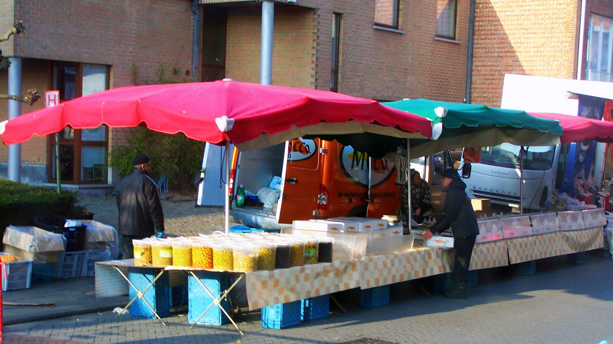 Stragan